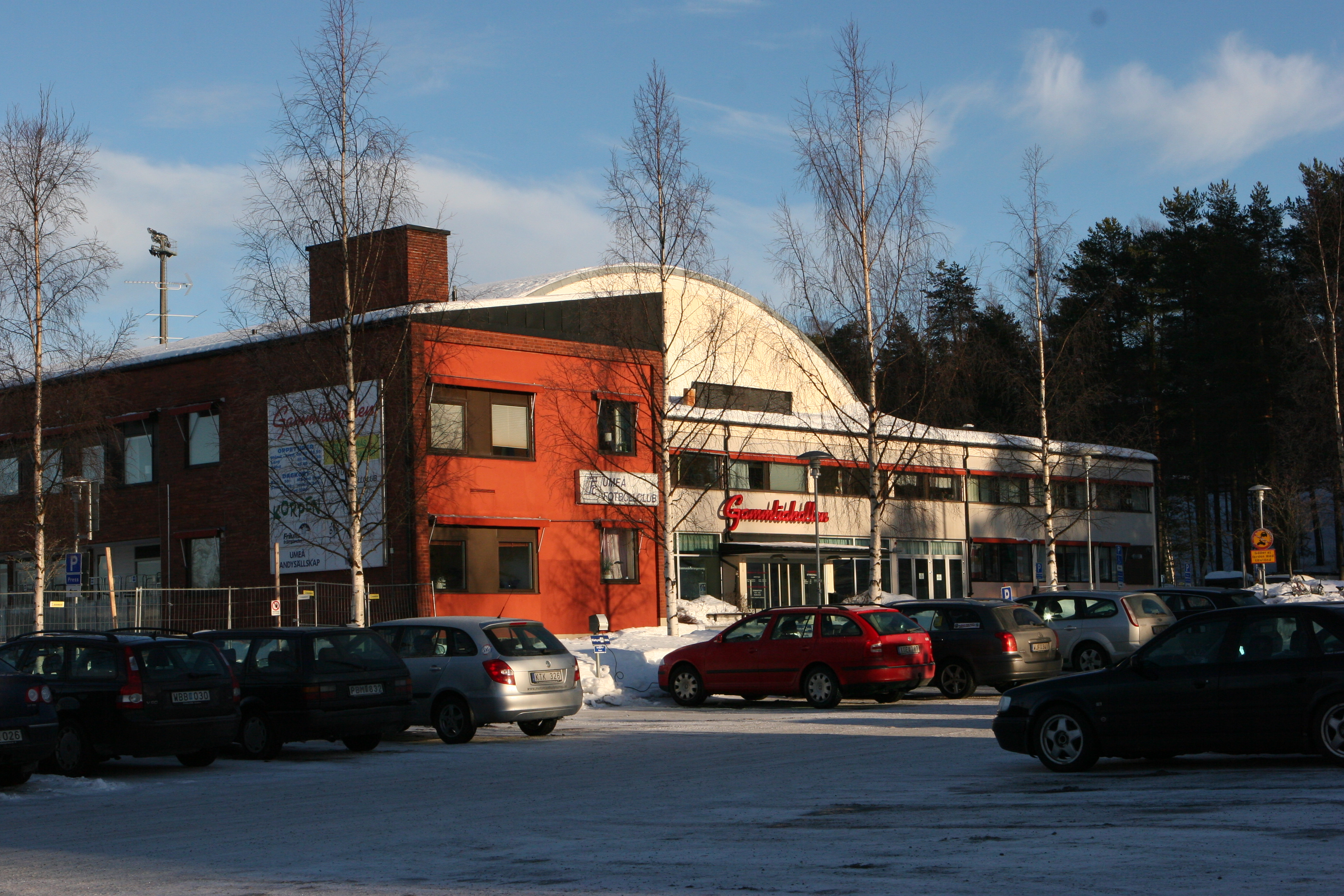 Gammliahallen in the winter